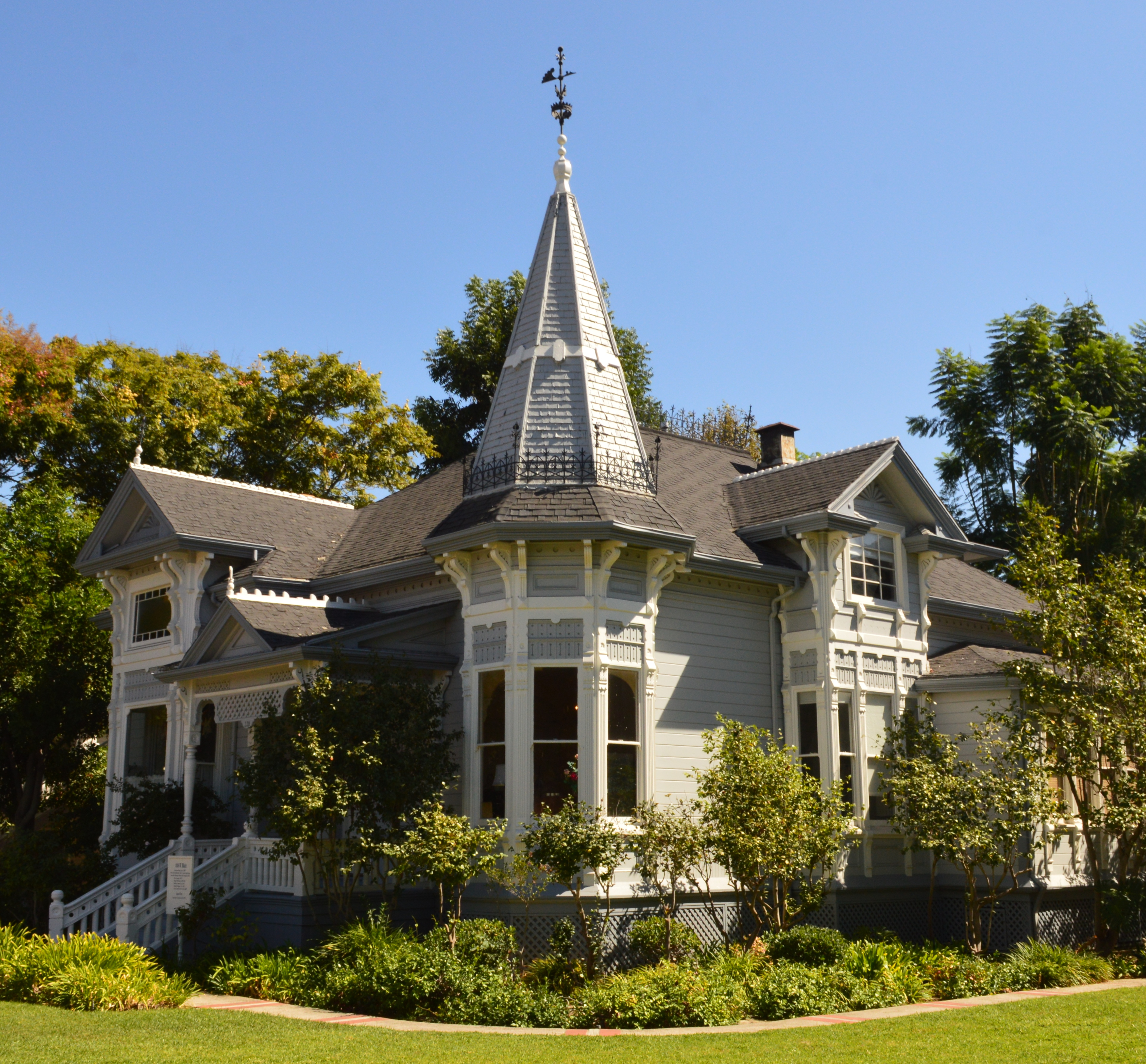 Sherman Stevens House (now used as an office building), 228 W. Main St. - Old Town Tustin, Tustin, California